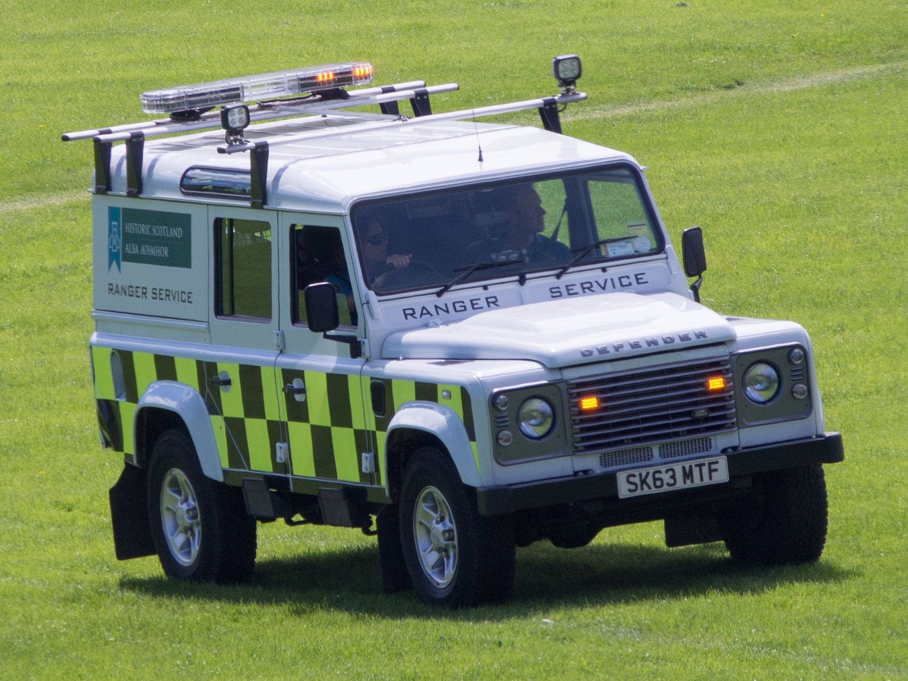 A Land Rover Defender belonging to Historic Scotland Ranger Service driving through Holyrood Park, Edinburgh.